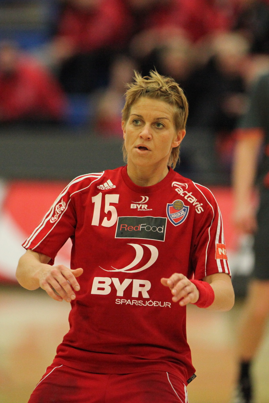 Hanna Guðrún Stefánsdóttir of Haukar in a game against FH in 2009.